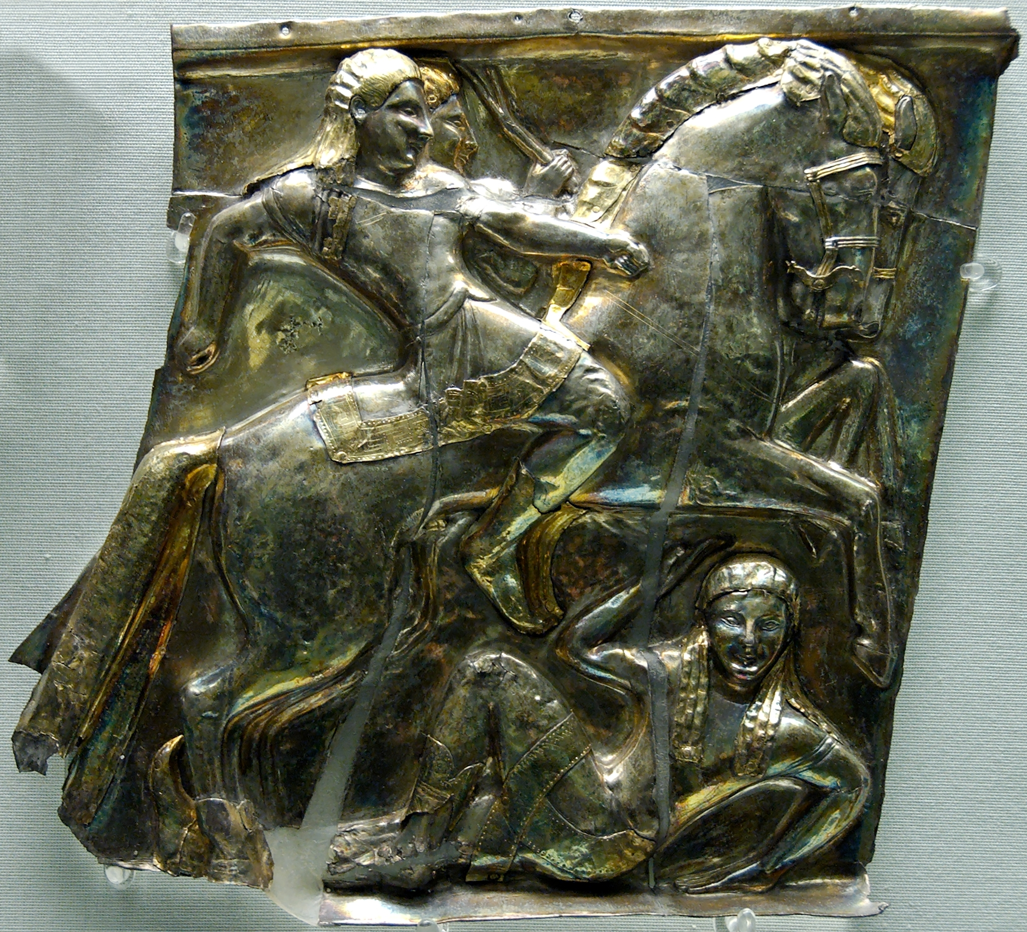 Two riders and a fallen man; a sphinx and two lions, one attacking a boar. Silver panels with repoussé reliefs overlaid with electrum foil, Etruscan artwork, 540–520 BC. Found in 1812 in a tomb at Castel San Marino, near Perugia.